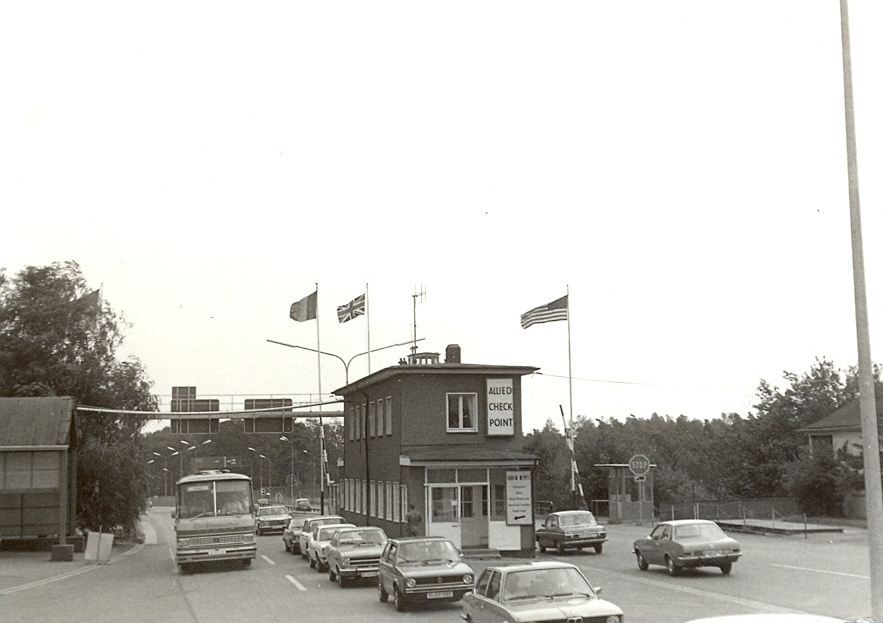 Checkpoint Helmstedt in 1976